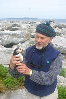 It took eight years from the time Stephen Kress moved the first first puffin chicks to Eastern Egg Rock until the first nesting pair appeared in 1981.